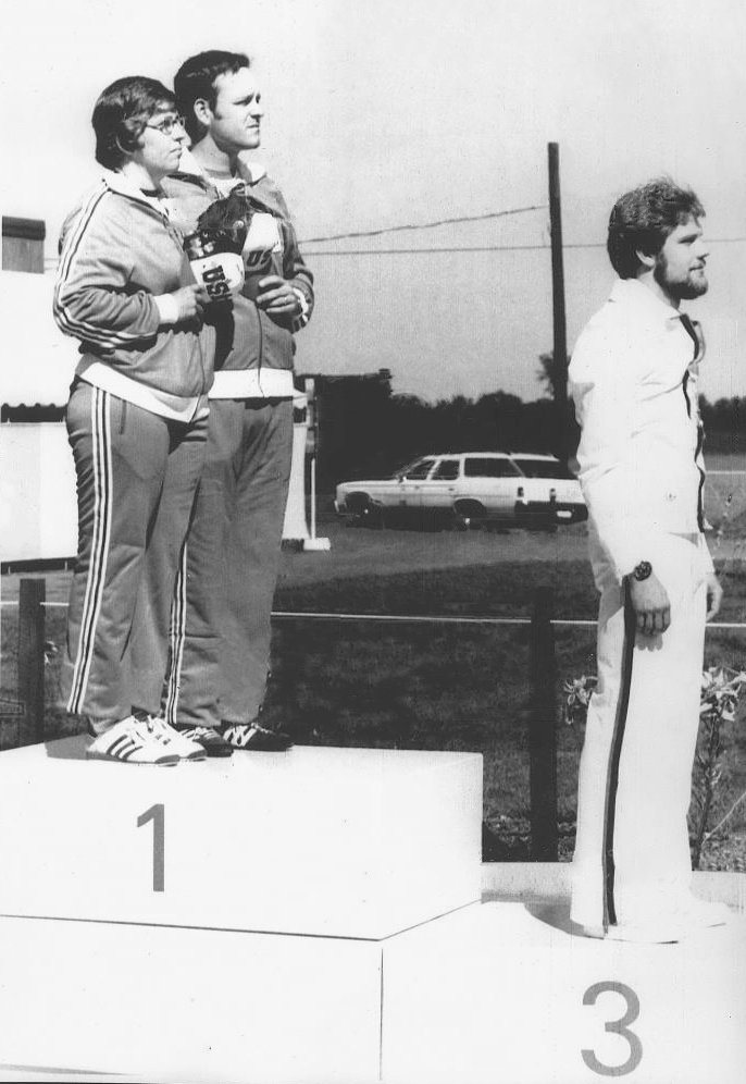 1976 Press Photo Olympic shooting medalists Margaret Murdock and Lanny Basshaw